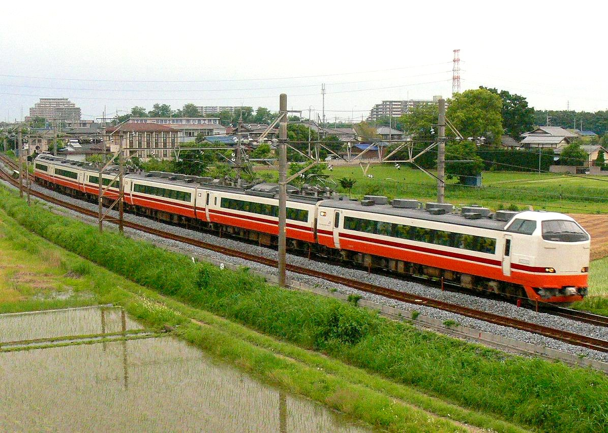 JR East 485 series EMU used for "Kinugawa" Tobu Railway inter-running services seen on the Tohoku Main Line between Shin-Shiraoka and Shiraoka Stations, 30 May 2006.